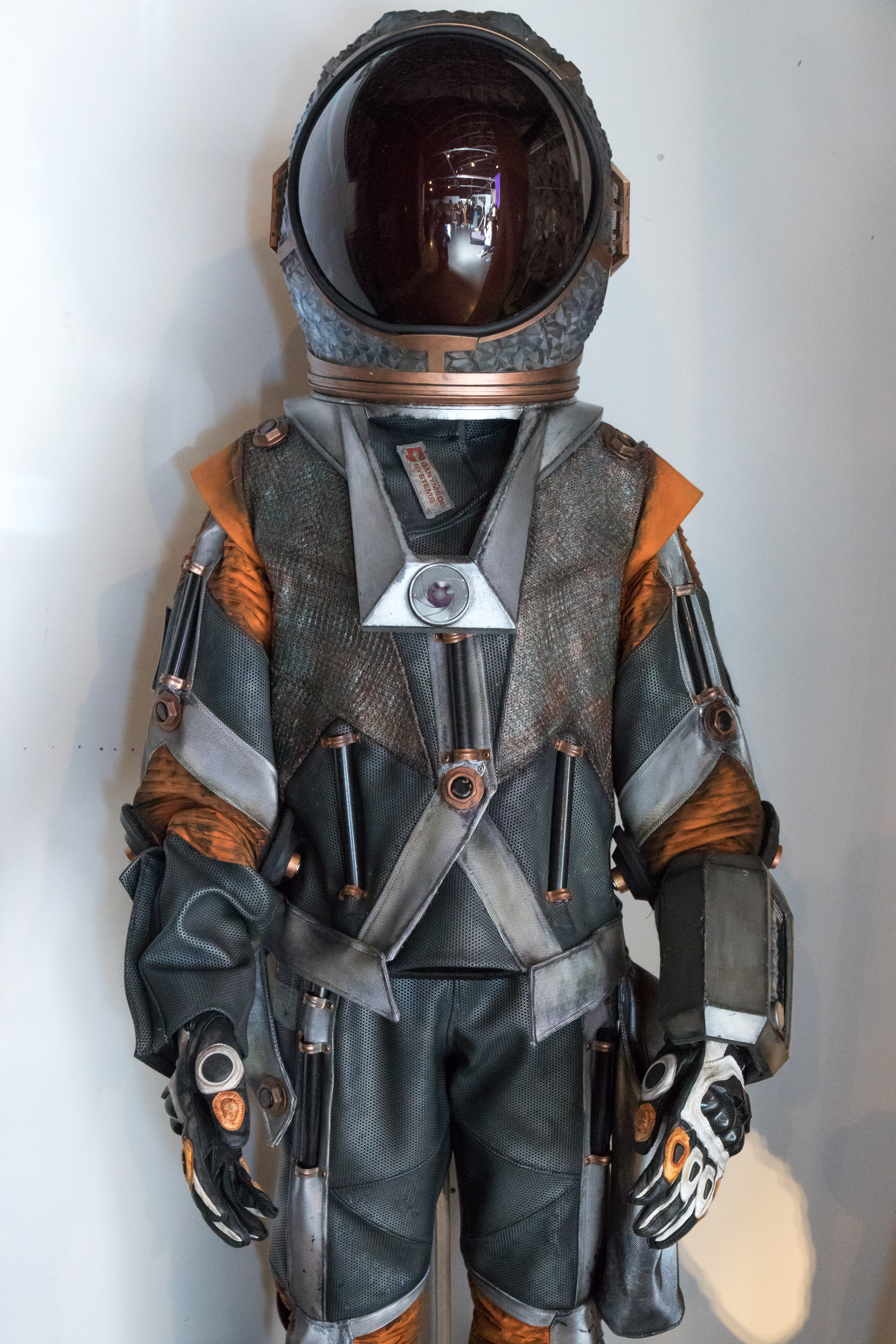 Click here to view my Doctor Who collection Click here to view my Doctor Who locations collection Doctor Who Experience